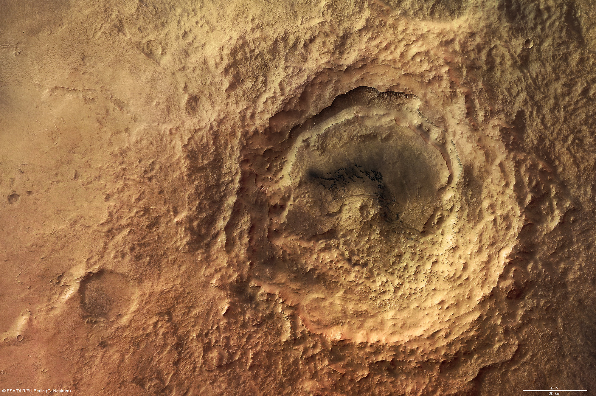 The 90 km impact crater Maunder on Mars imaged by the HRSC instrument aboard Mars Express.